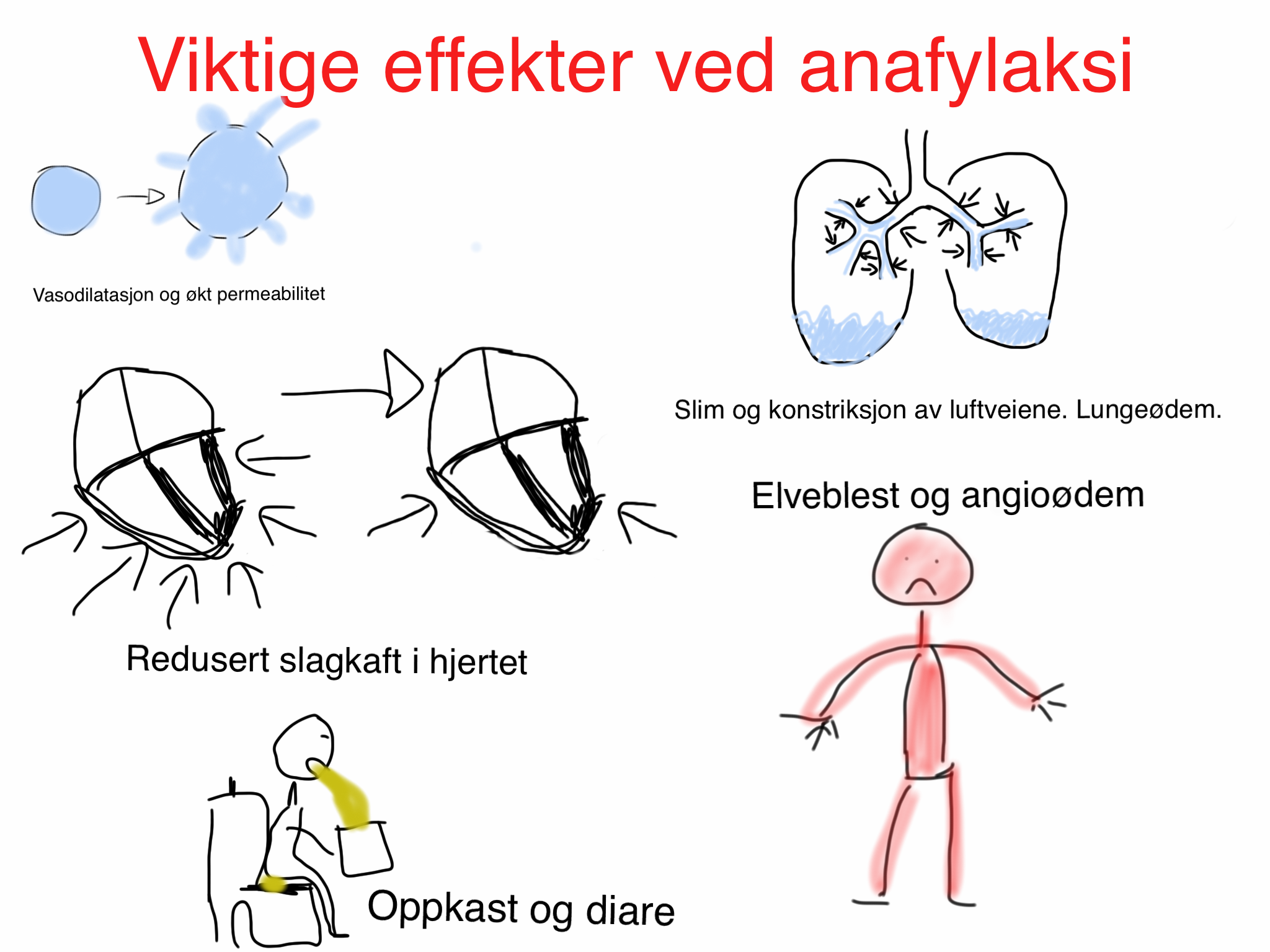 Important effects of anaphylaxia